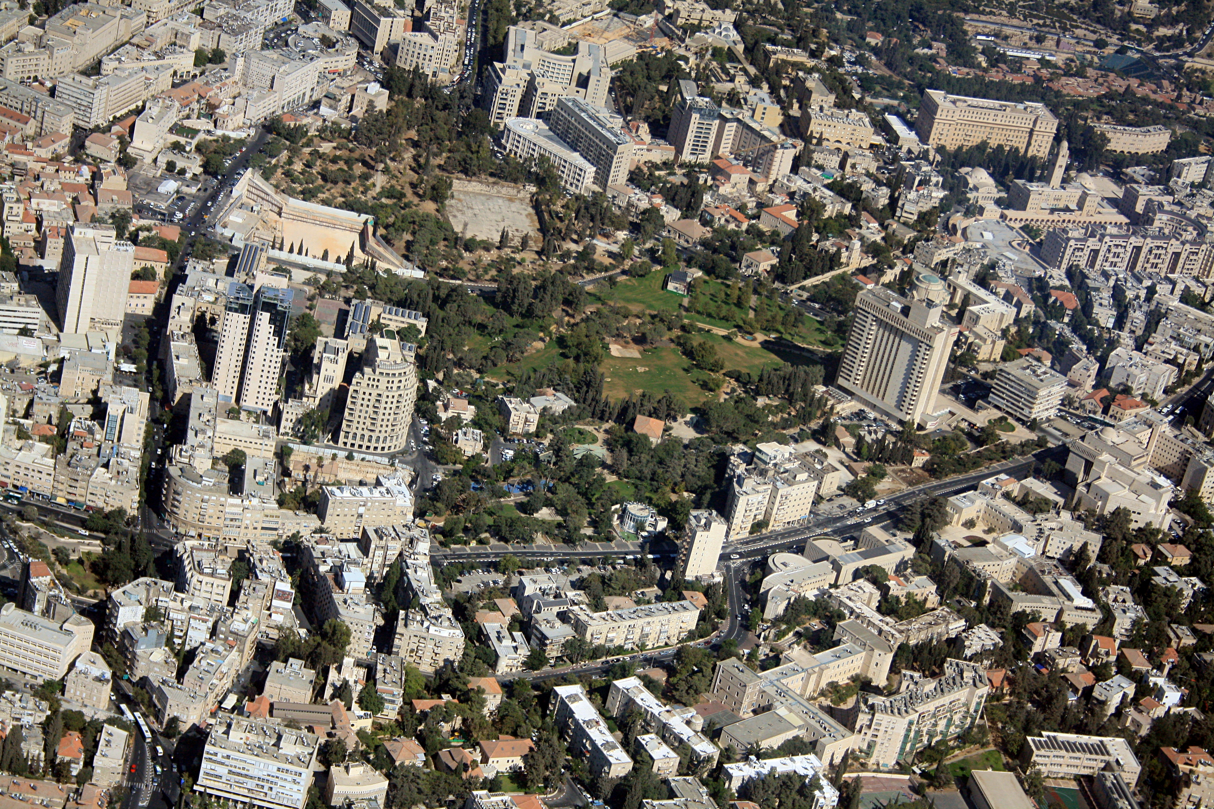 Independence Park, Jerusalem.